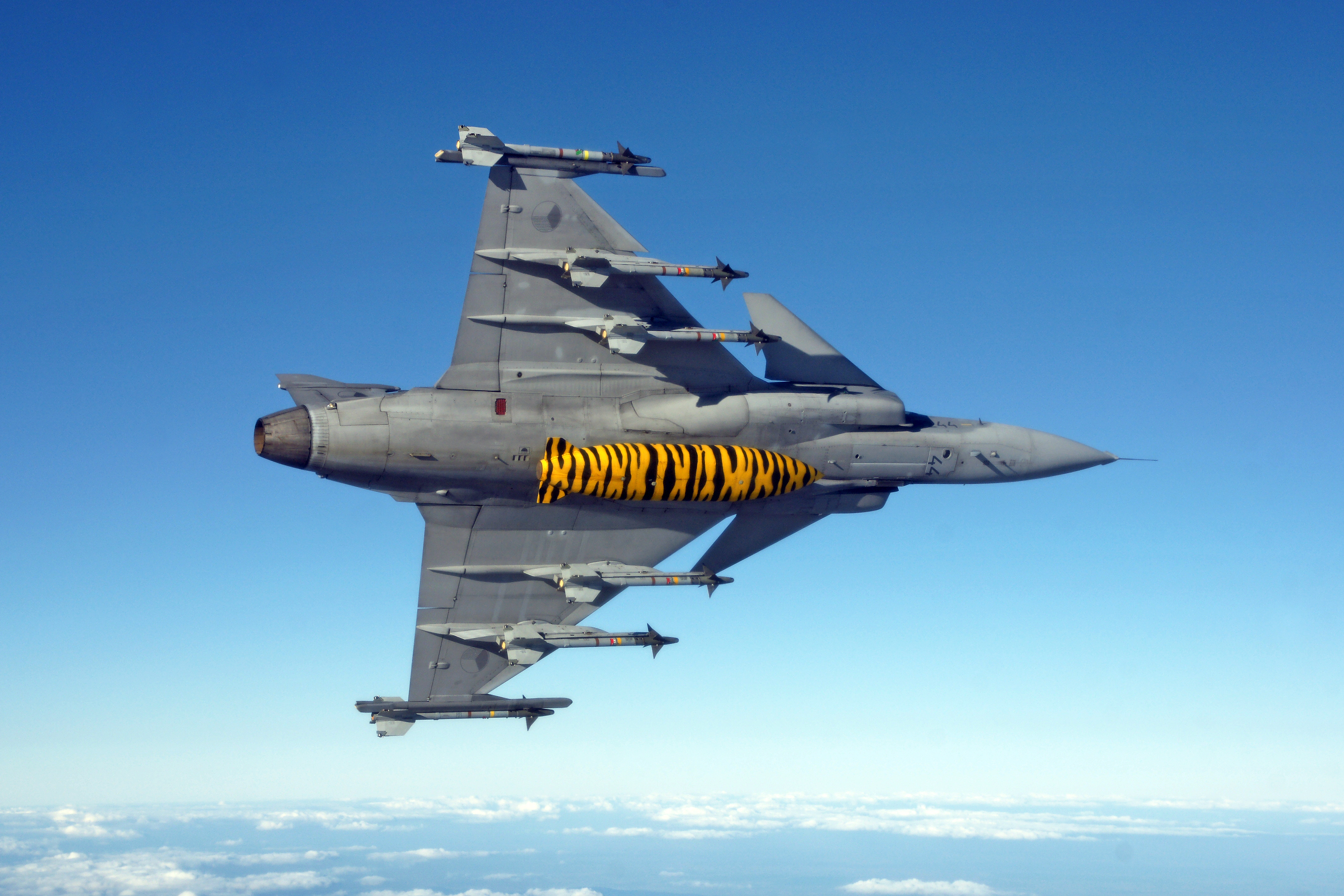 JAS-39 Gripen (CzAF) February 2014